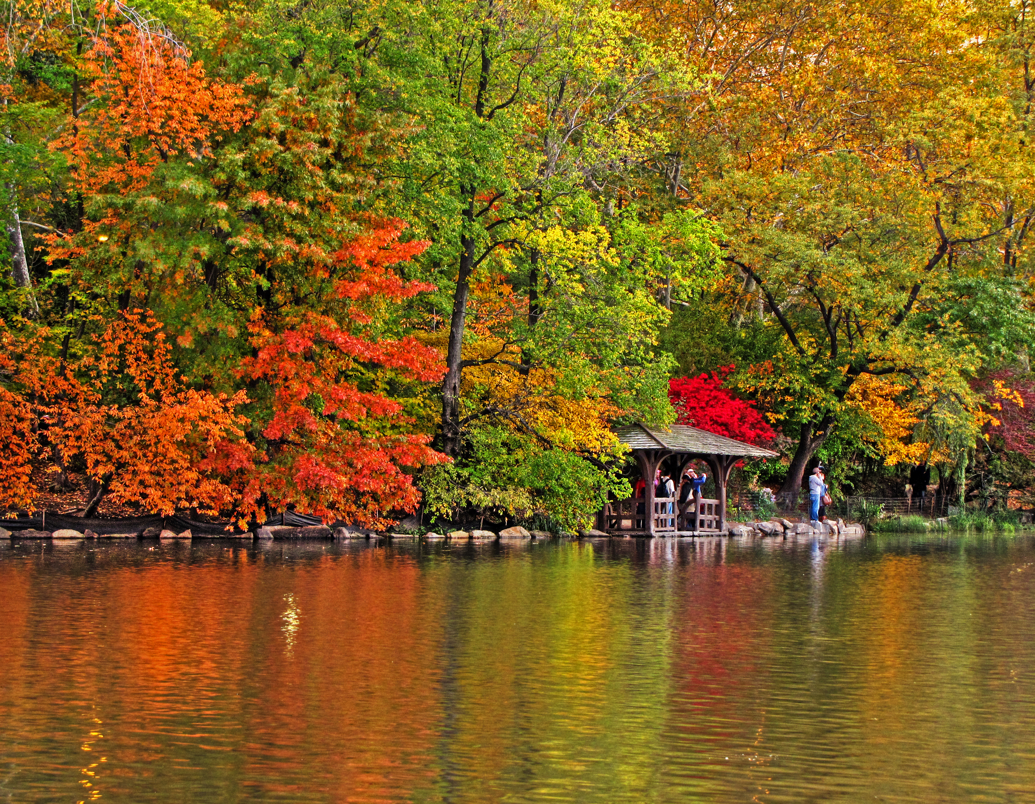 The look-out point on the Lake in Central Park. This is an HDR of three images.